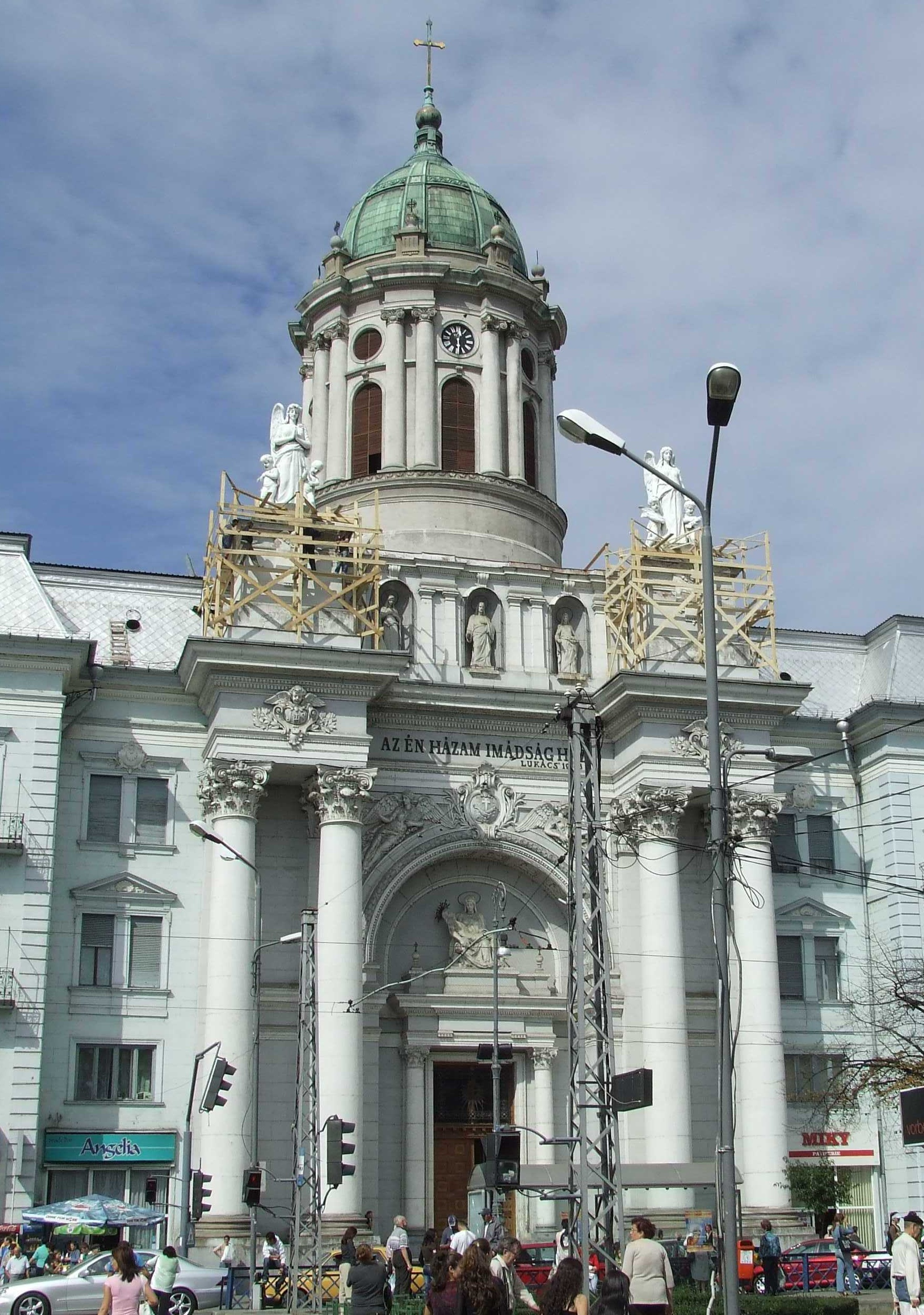 Catholic cathedral St Antony of Padua in Arad, Romania